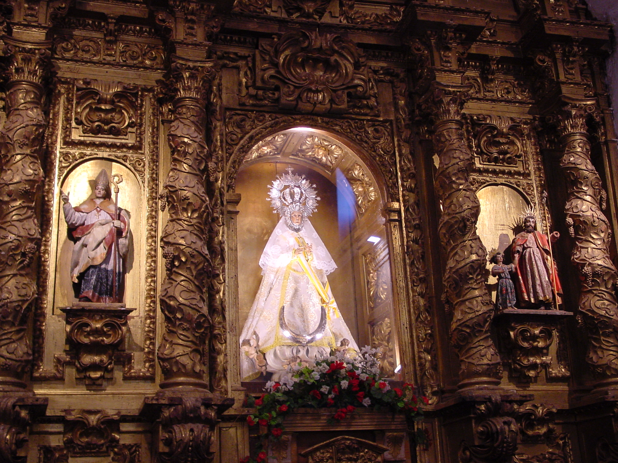 Church of San Claudio in Valderas, Leon Spain. Main barroque altarpiece,the last quarter of the 17th century by an author from Valladolid. Figure of Our Lady of Help.